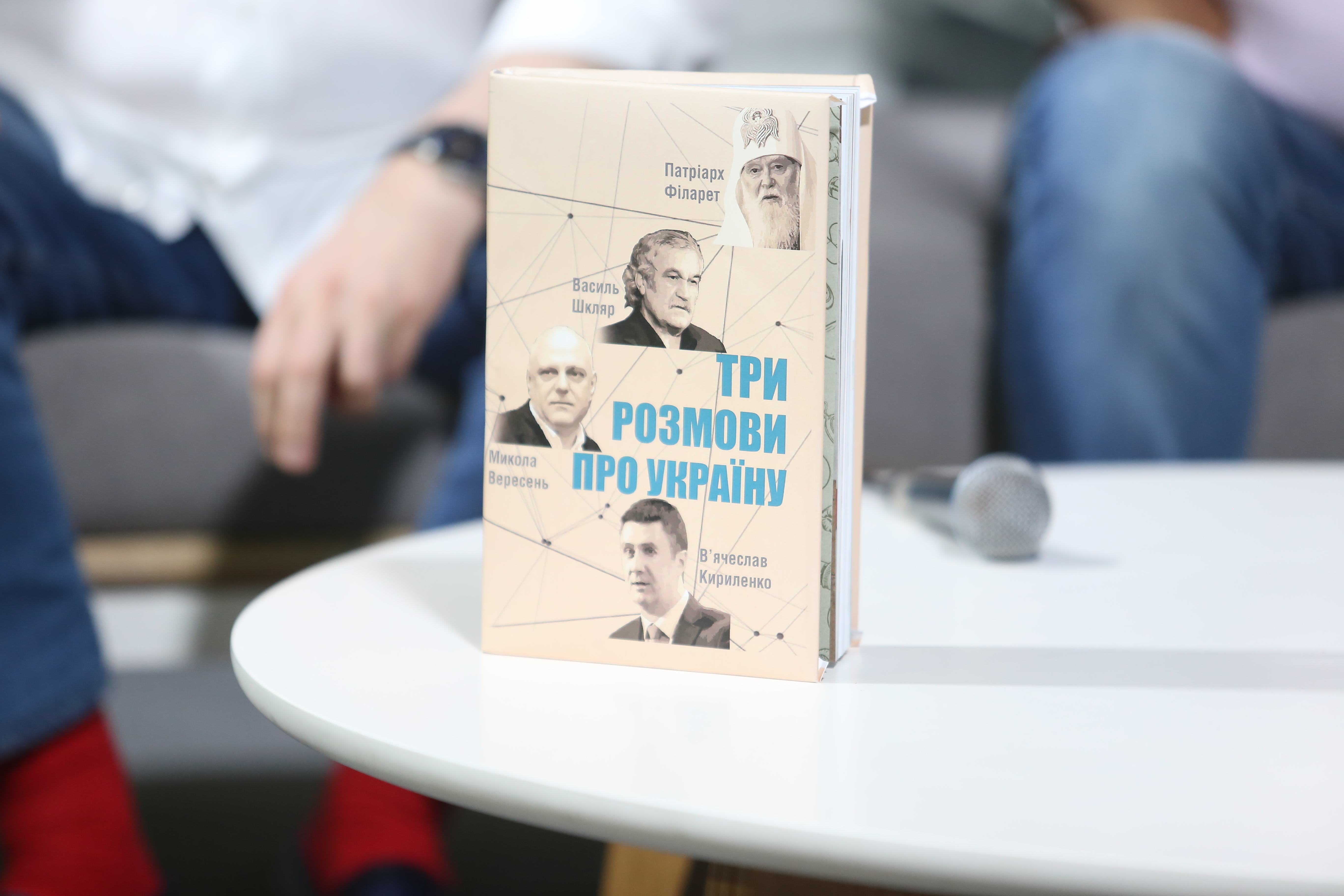 book Tree talks about Ukraine